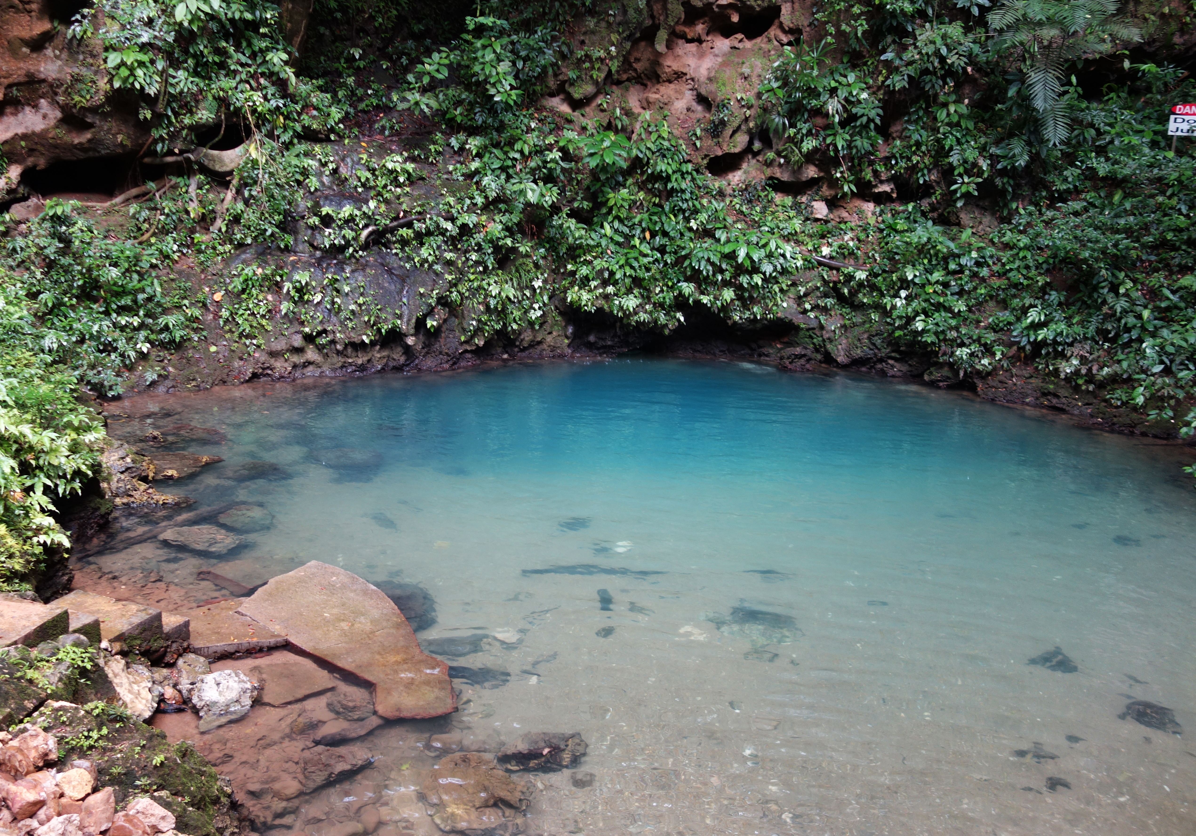 The cenote in St. Herman's Blue Hole National Park, Belize